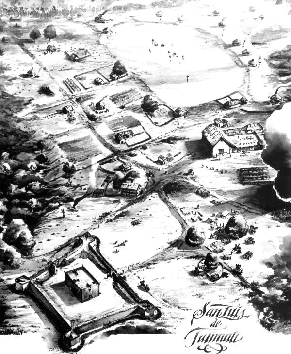 Watercolor of San Luis de Talimali mission in Tallahassee, Florida